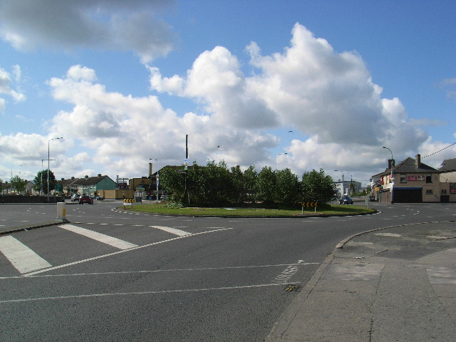 Walkinstown Roundabout The junction between (starting north and going clockwise) Walkinstown Road, Cromwell's Fort Road, St. Peter's Road, Greenhills Road, Ballymount Road Lower and Walkinstown Avenue.